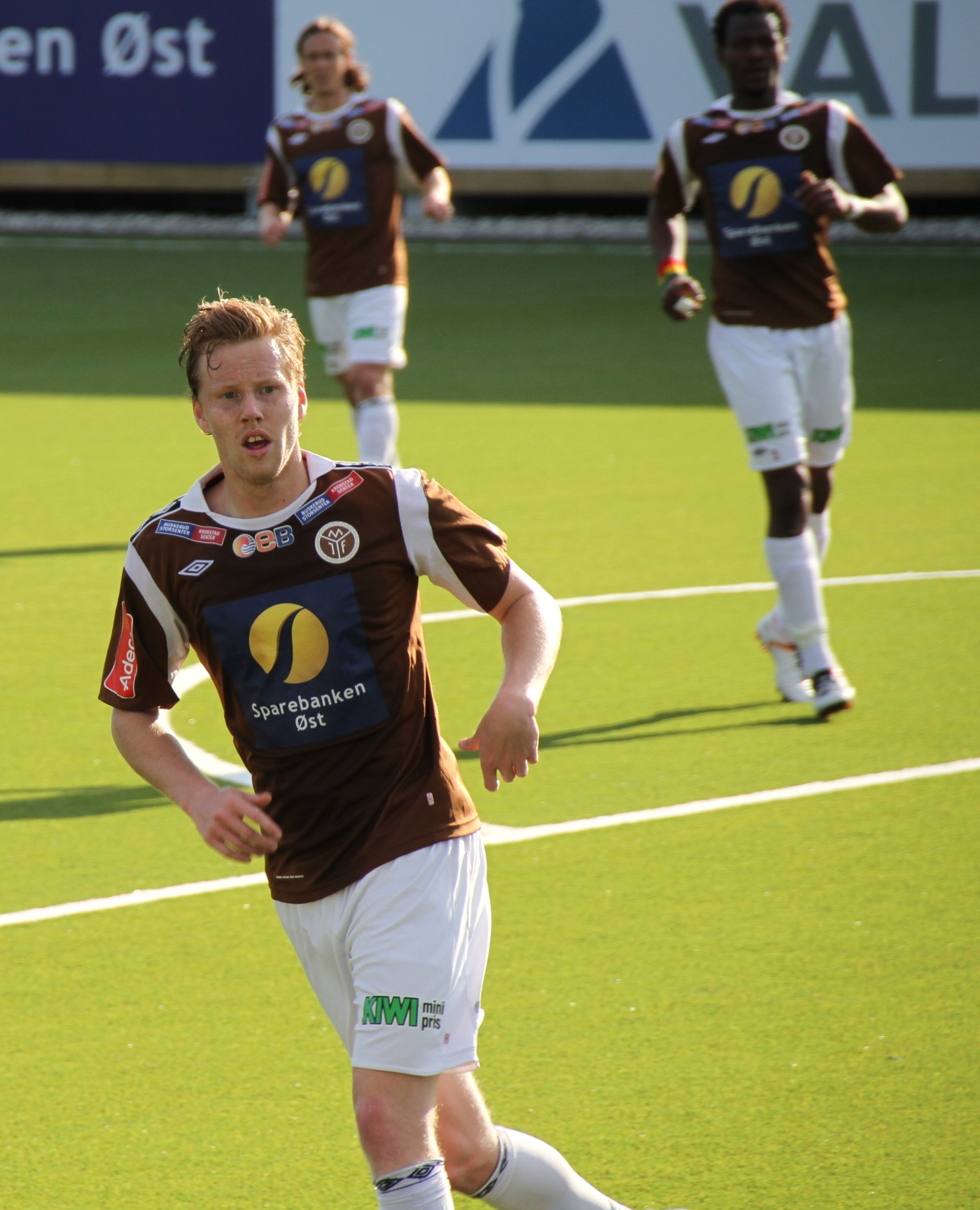 Mjøndalen (Norway) player in match against IK Start. May 20, 2012.